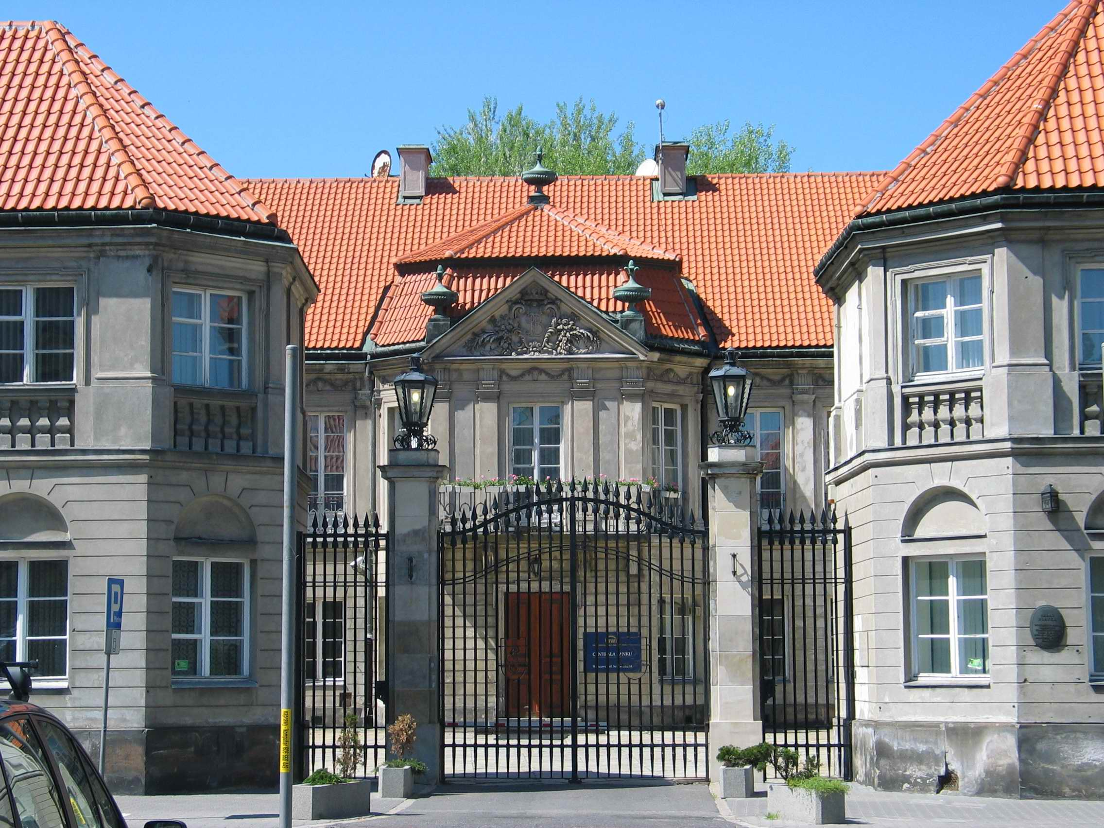 Palace of Blank in Warsaw, Poland